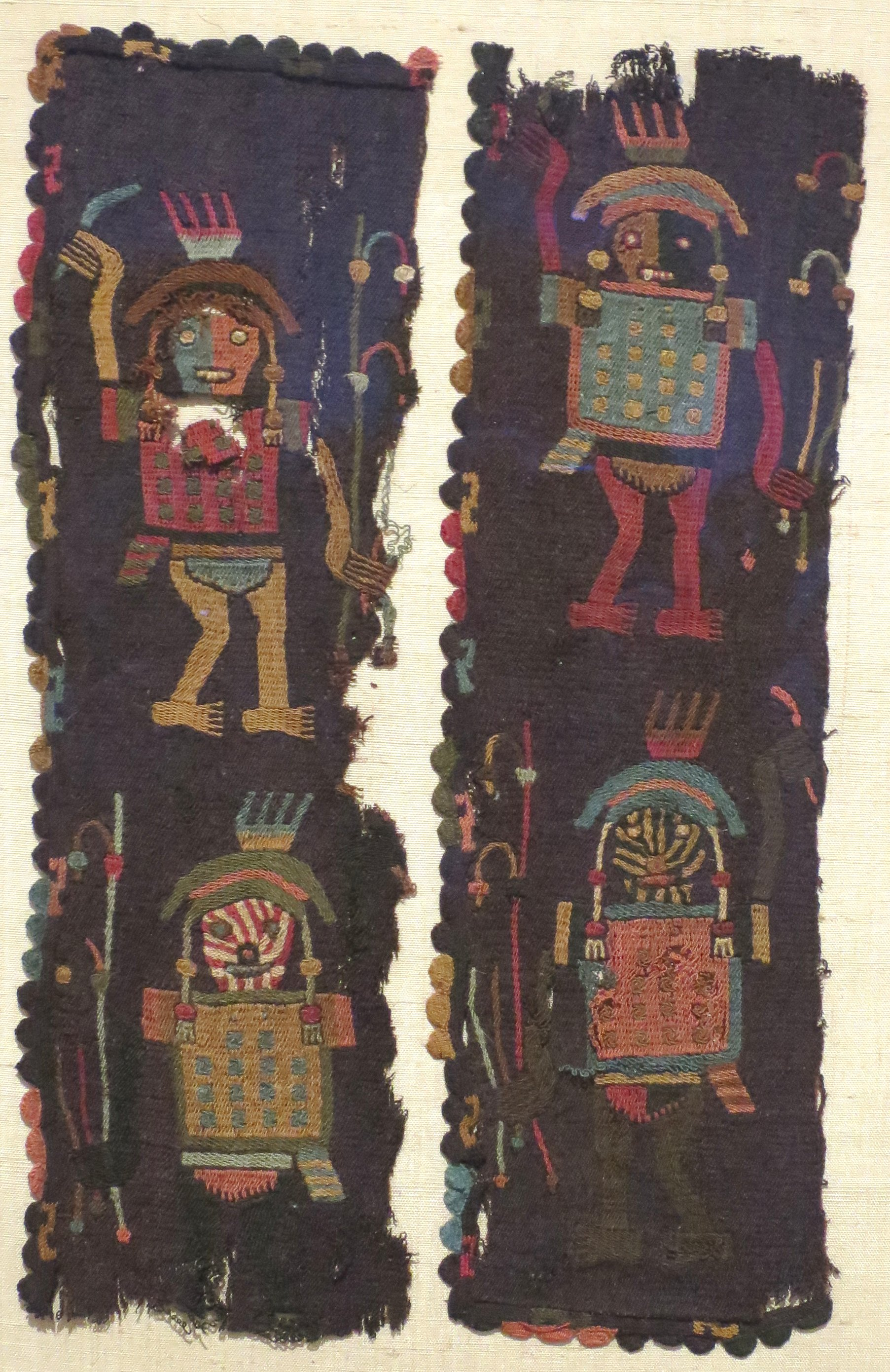 Archaeological fragments from Paracas, Peru, c. 200-100 BCE, cotton, camelid, plain weave, completely covered with embroidery and needle-knitted border, Honolulu Museum of Art accession 4181.1